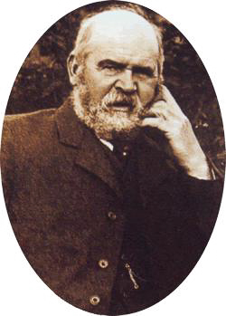 Robert Rix, founder figure of JR Rixs & Sons.